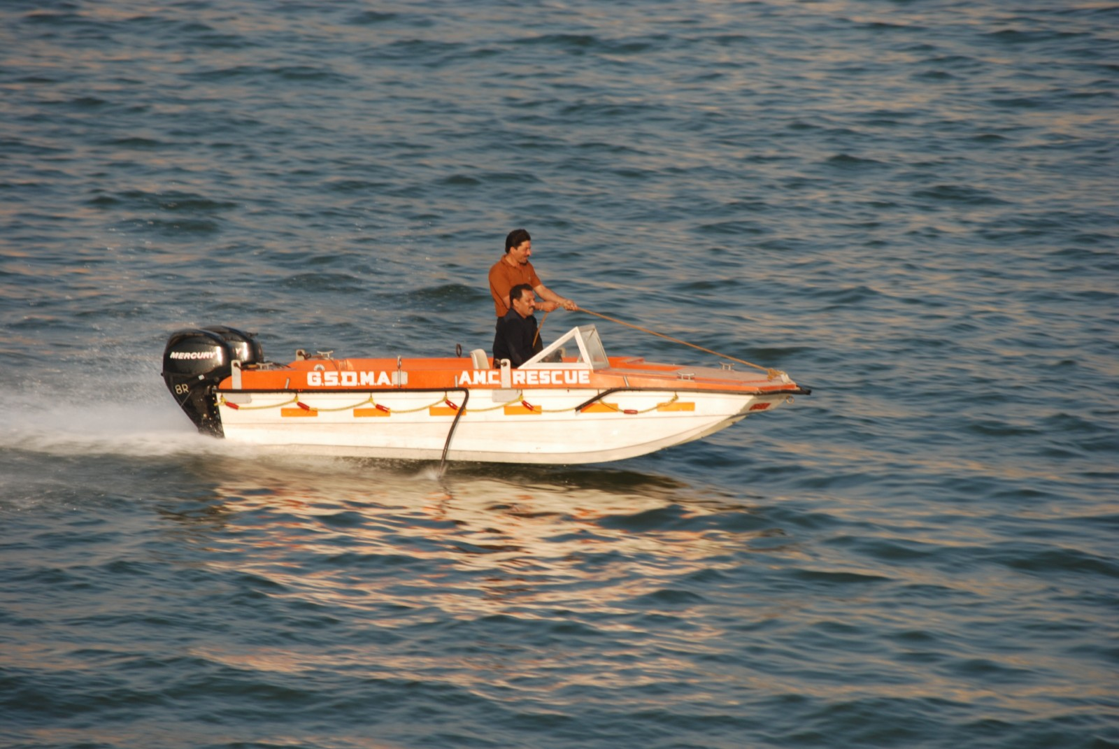 AMC has developed Sabarmati river front. Now one can enjoy boating in river Sabarmati.